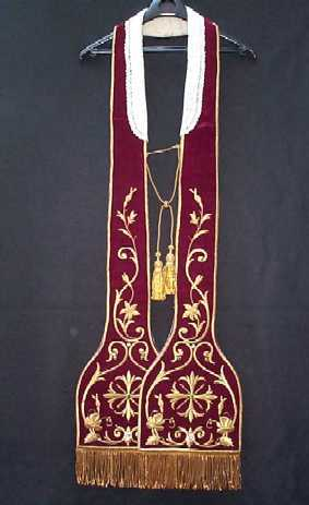 A stole.